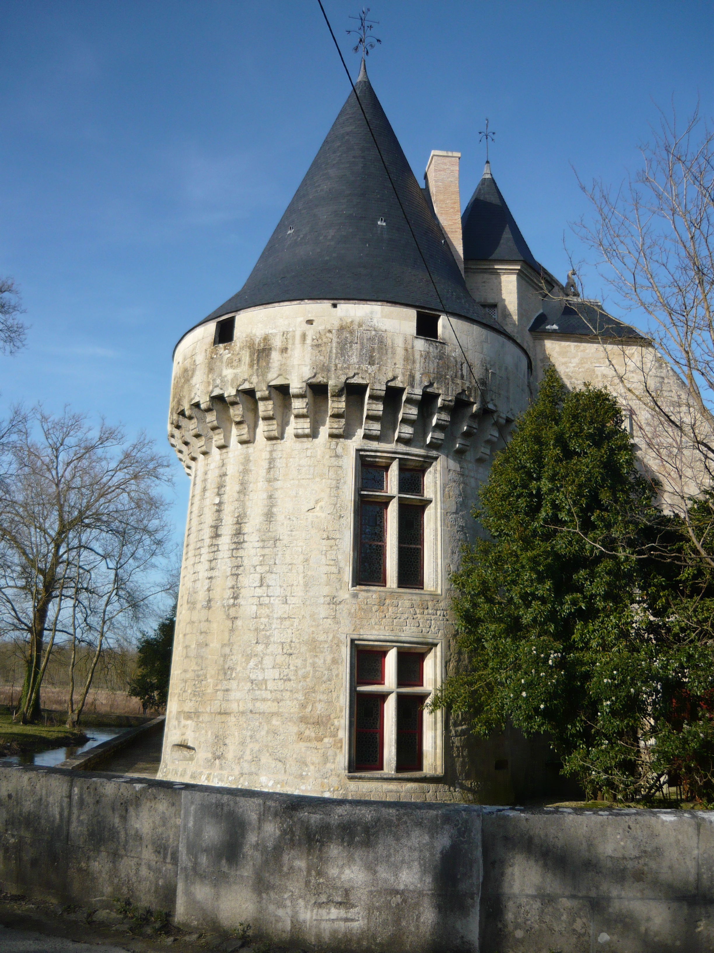 Une des tours Renaissance du château de Dampierre-sur-Boutonne en bordure de la Boutonne.